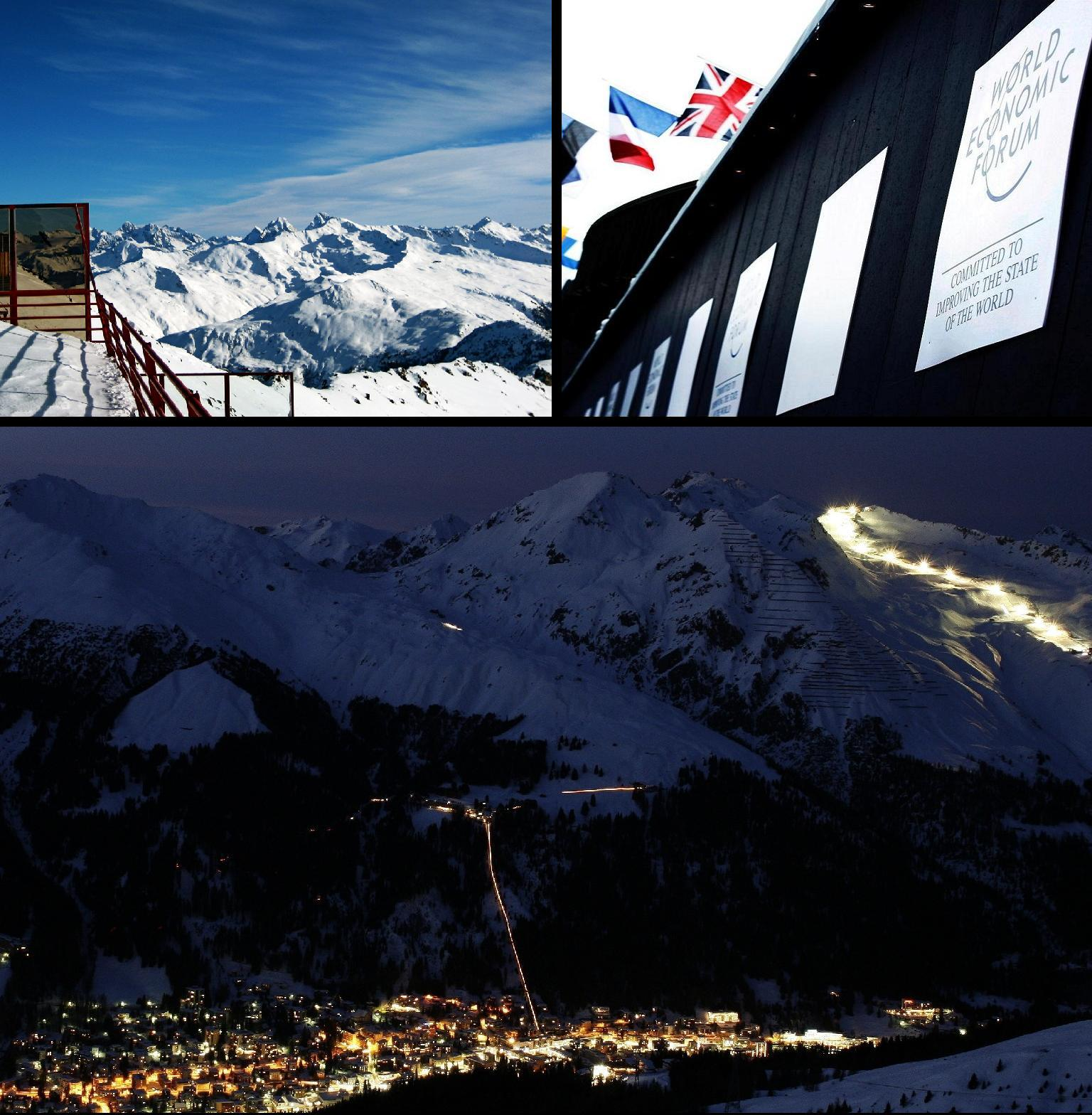 Montage for the Davos article on Wikipedia.